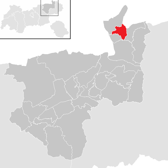 District Kufstein